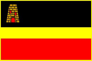 Flag of Guayama